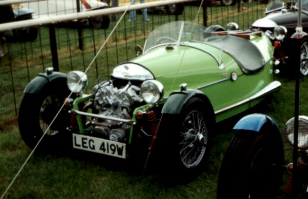 The JZR 'beetle-back' at Newark Kit Car Show, Lincolnshire c.1993. Gary W Jordan, photographed at Newark Kit Car Show c. 1993, I Gary Jordan the creator of the image allow it to be used on Wikipedia